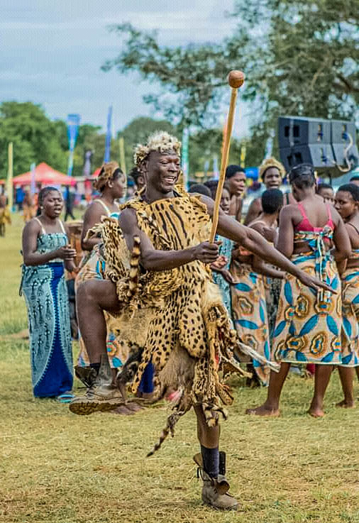 This is an image with the theme "Play" from: Zambia